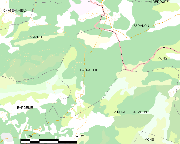 Map of French municipality La Bastide